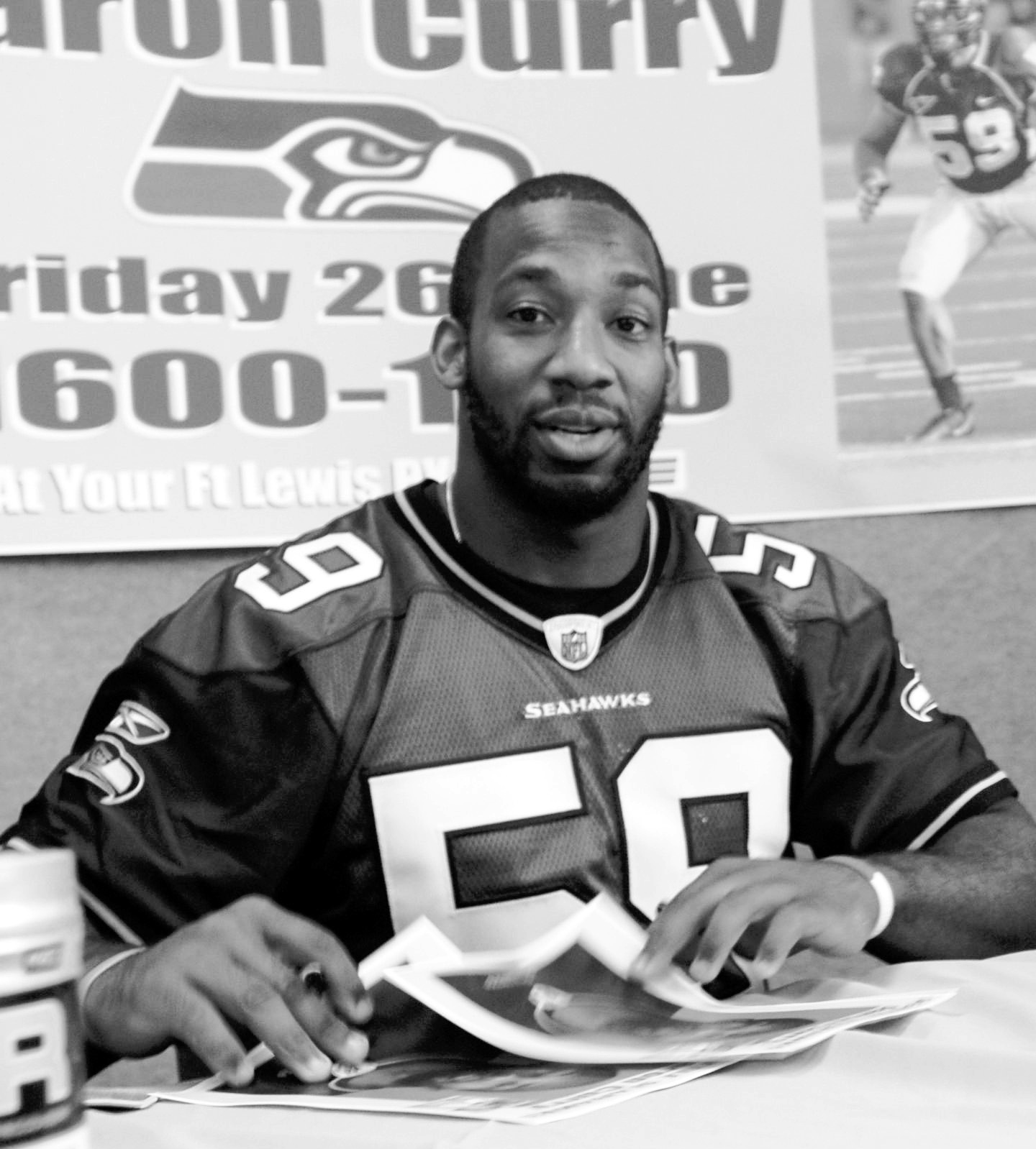 Seattle Seahawks first round draft pick Aaron Curry signs autographs during a visit to Fort Lewis.